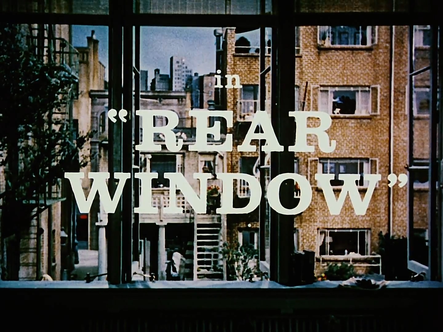 Cropped screenshot from the trailer for the film Rear Window